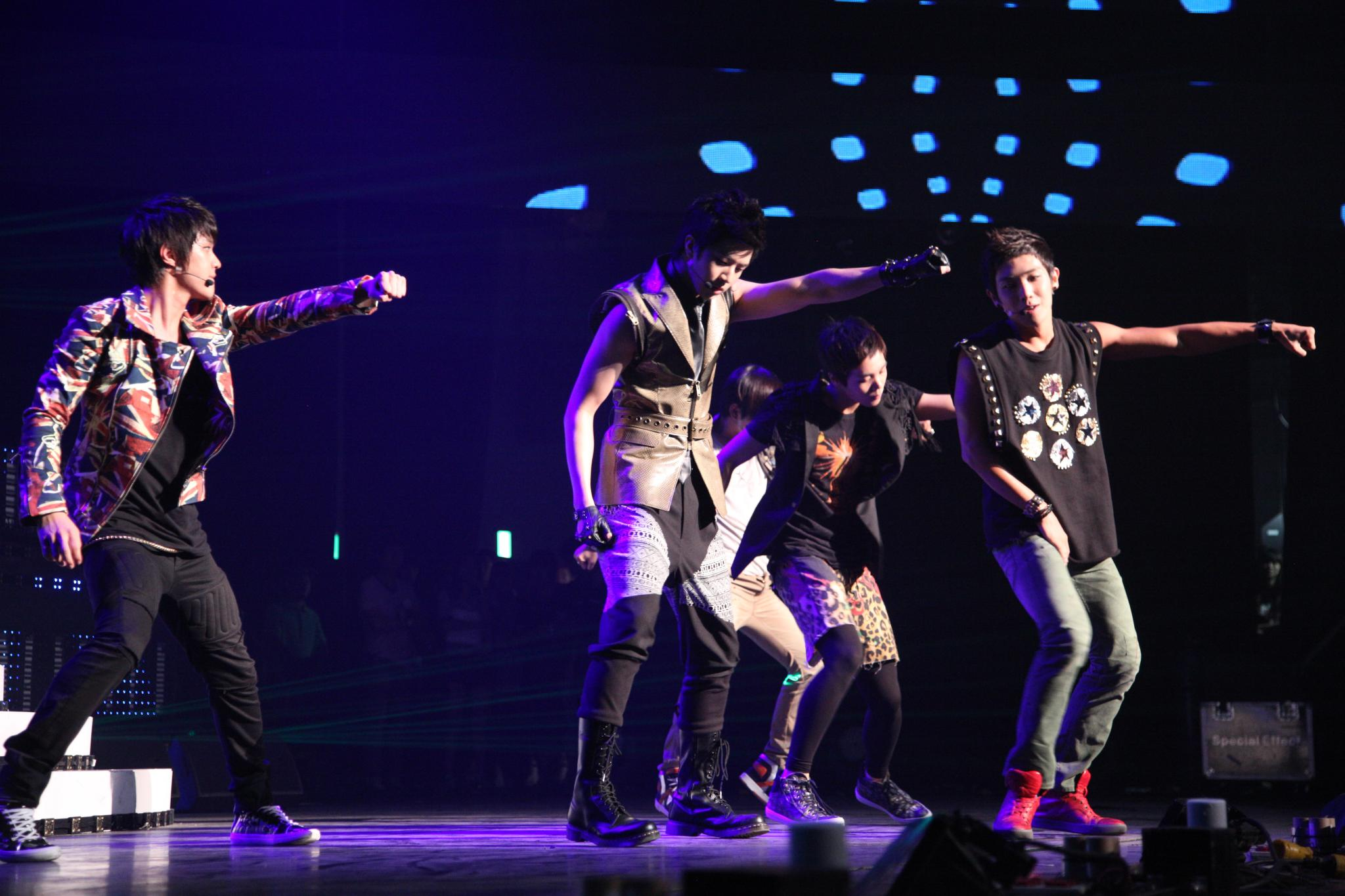 MBLAQ @ Cyworld Dream Music Festival 싸이월드 드림 뮤직 페스티벌_12